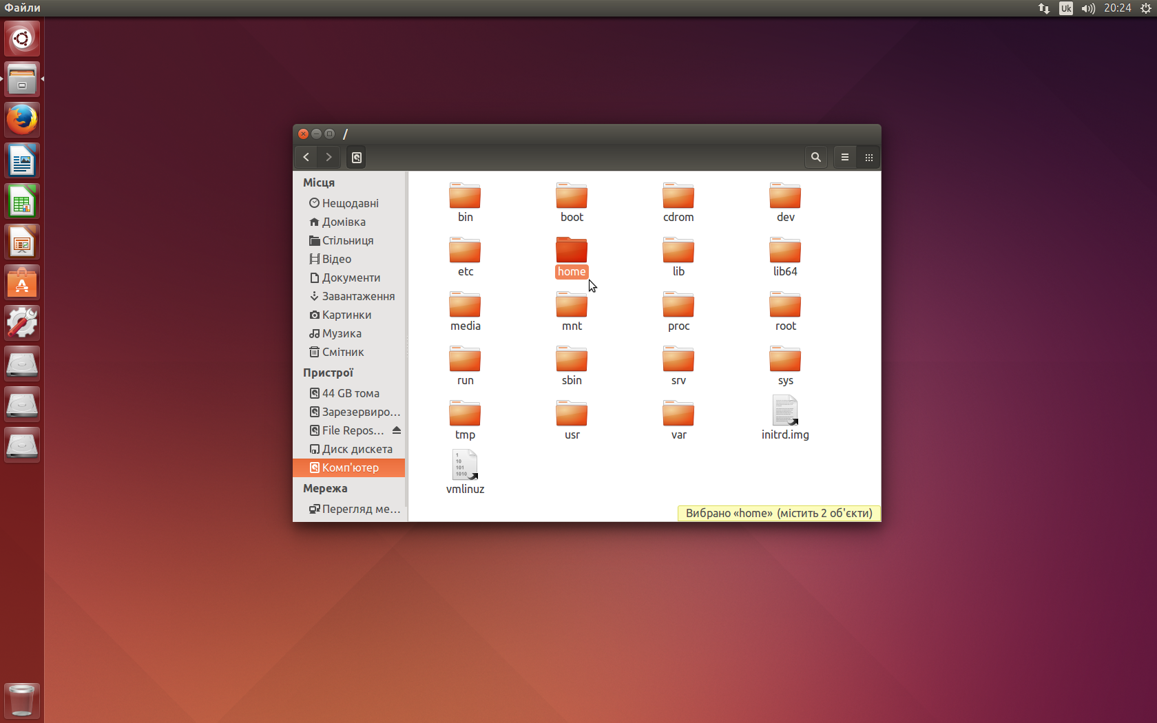 Filesystem Hierarchy Standard (FHS) in Ubuntu 14.04. In Ukrainian.